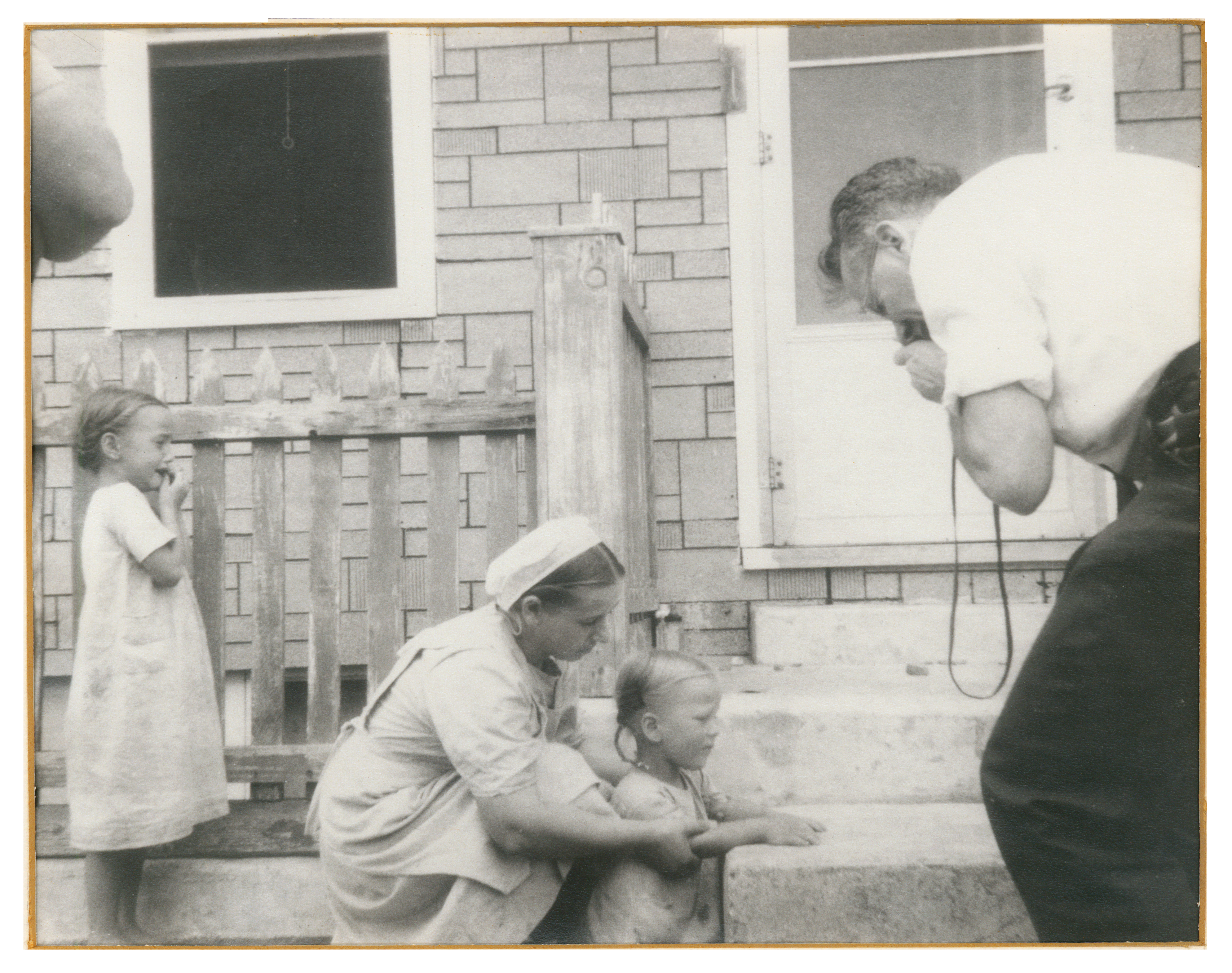 Victor McKusick taking a photograph of an Amish child's hands during his famous study of genetics of the Amish people.